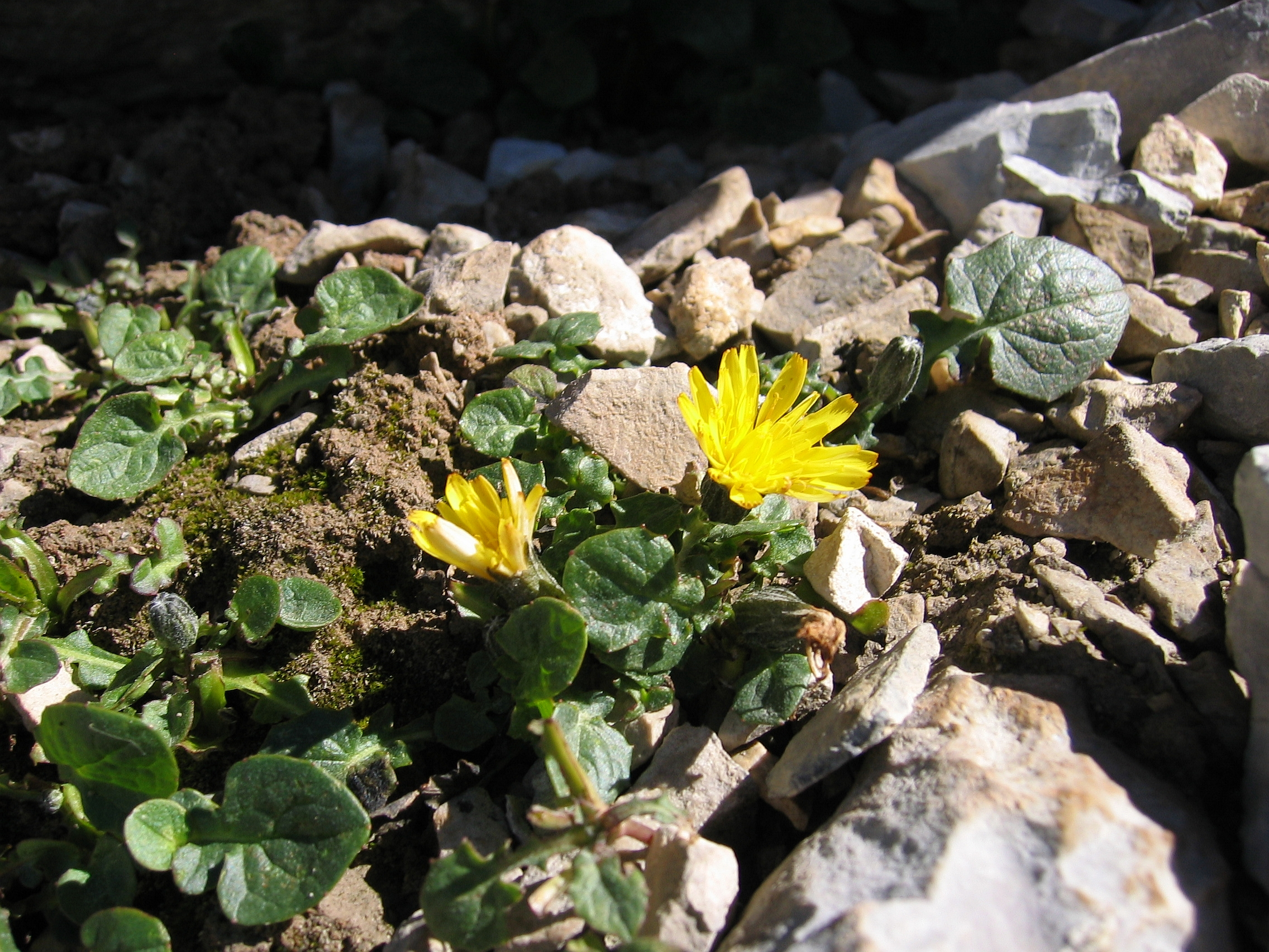 Crepis pygmaea, Near Breche de Roland ~2900, Pyrenees, Spain